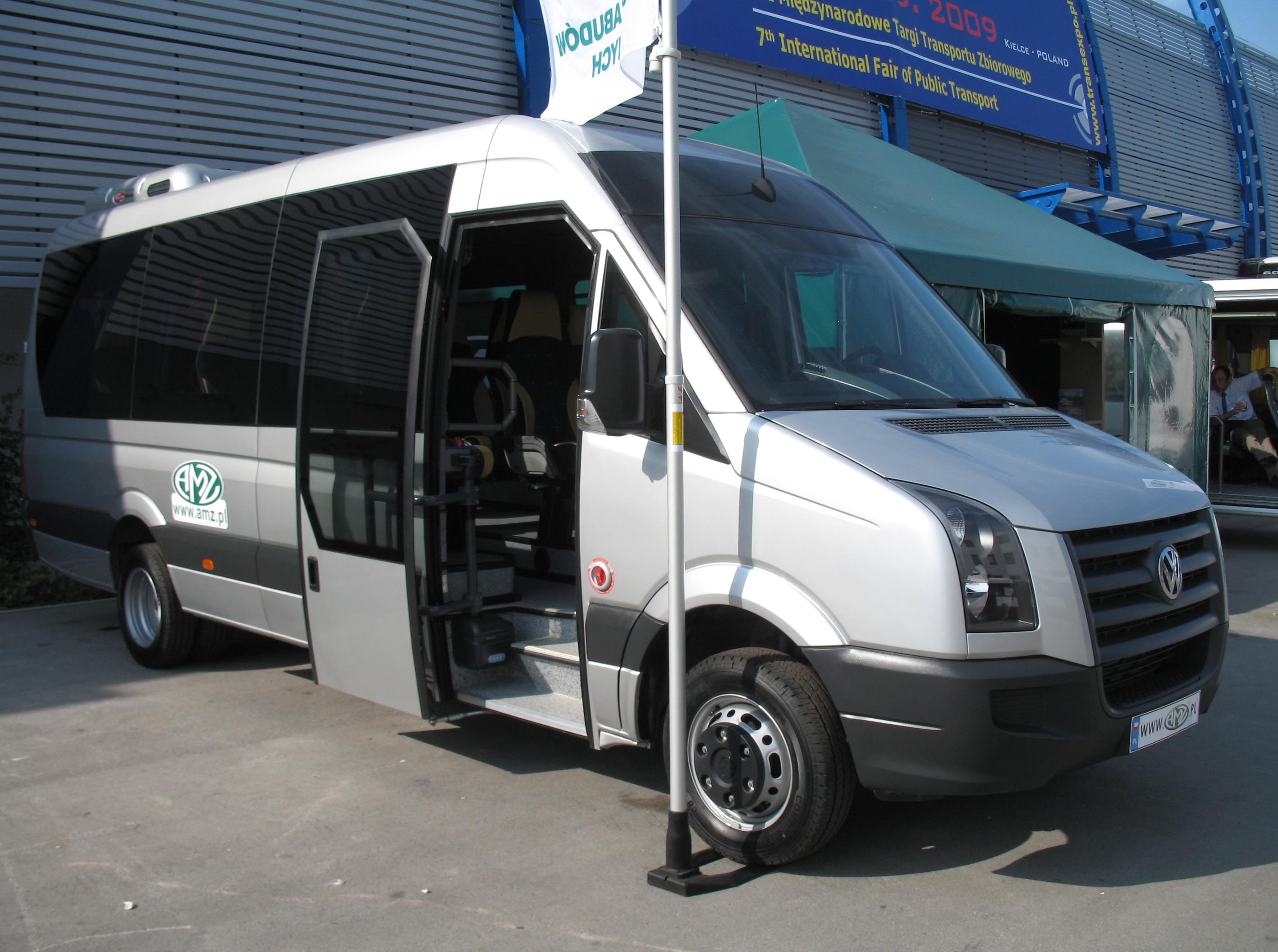 AMZ Volkswagen Crafter bus in Kielce, Poland. Built 2009. Transexpo 2009.